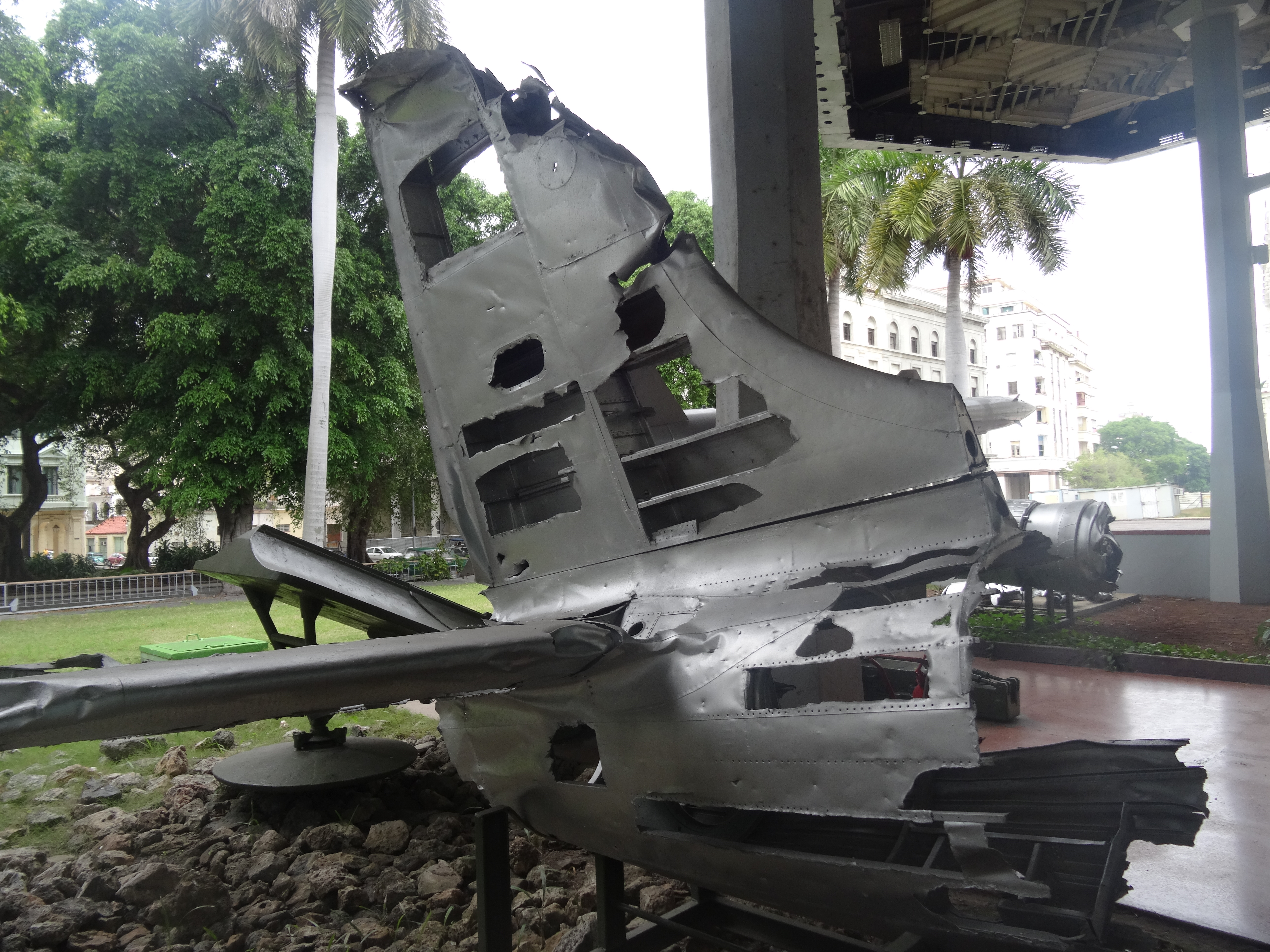 Museo de la Revolucion, Havana, Cuba - remains of B-26 bomber shot down during Playa Giron (Bay of Pigs) actions in 1961. This plane was flown by US pilot whose corpse stayed for almost 19 in Cuba, since United States did not admit to the world their taking part int the aggression against the island and therefore, did not officially request the return of the body. Once the request finally made, the corpse was delivered in 1979.